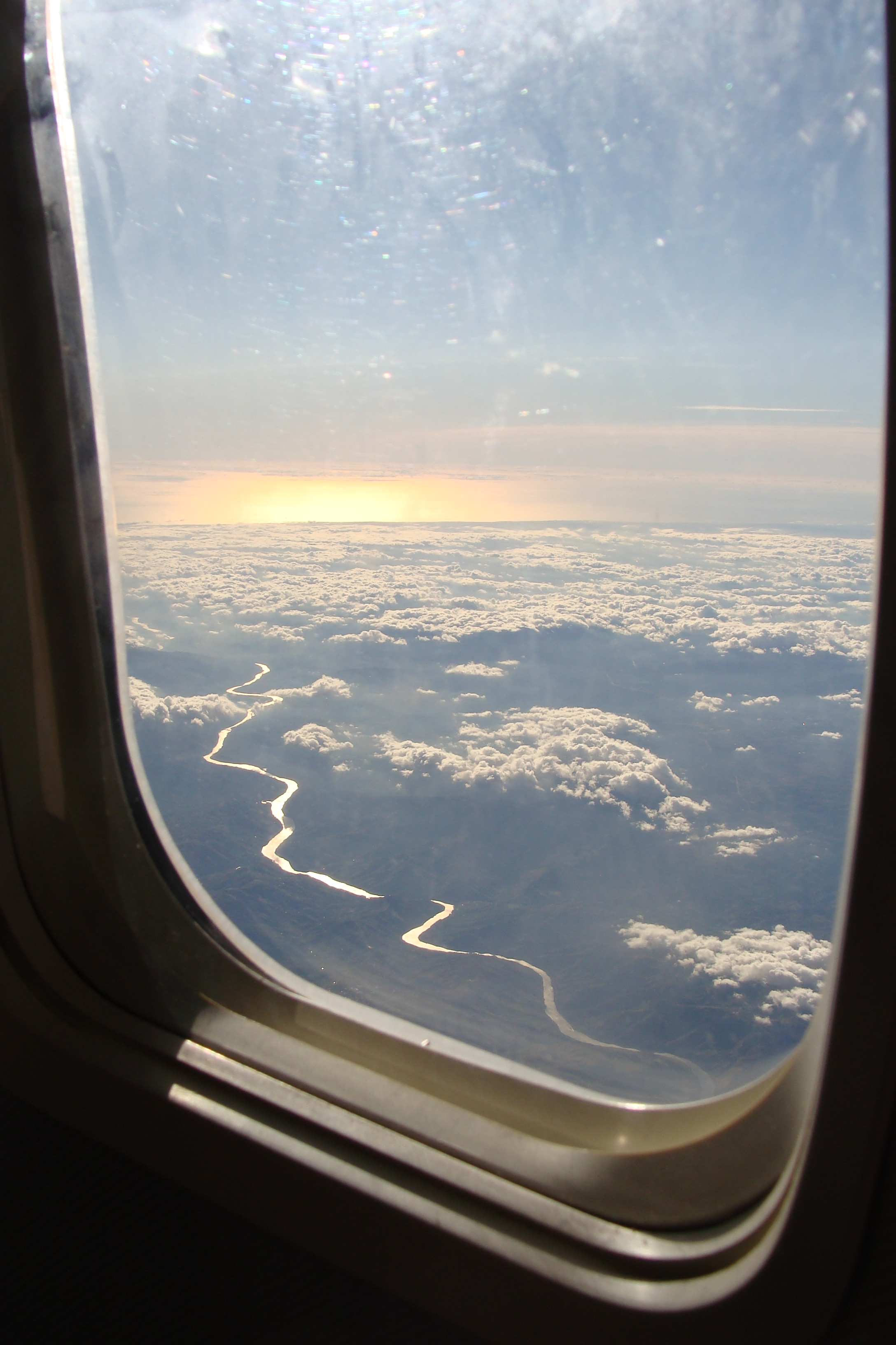 «The Tagus (Tejo in Portuguese, Tajo in Spanish) is the longest river on the Iberian Peninsula. It is 1,038 kilometers long, 716 km in Spain, 47 km along the border between Portugal and Spain and 275 km in Portugal, where it empties into the Atlantic Ocean at Lisbon.» IN: Somewhere near Santarém, Brussels-Lisbon flight, 08/2011